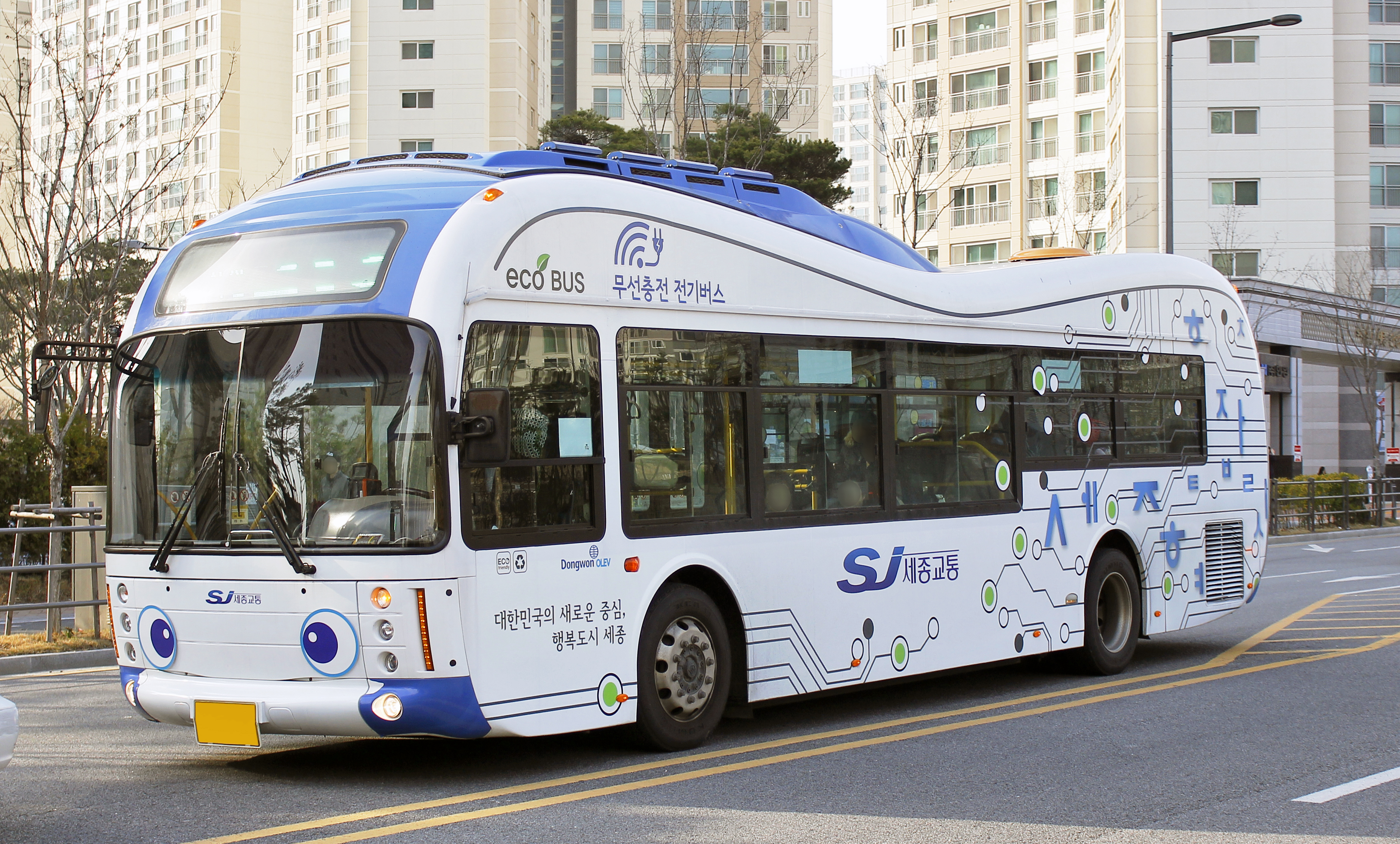 KAIST OLEV bus on SJT route 213